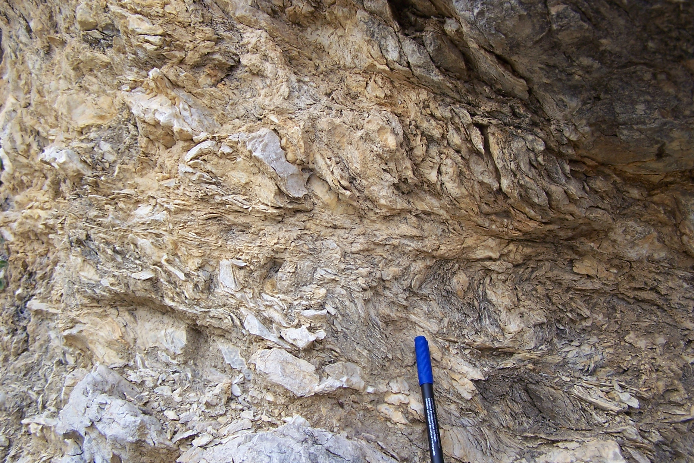 Shear zone at a thrust fault in rocks at Abella de la Conca in Catalonia, Spain. (Details based on description of this photograph in Dutch Wikipedia at